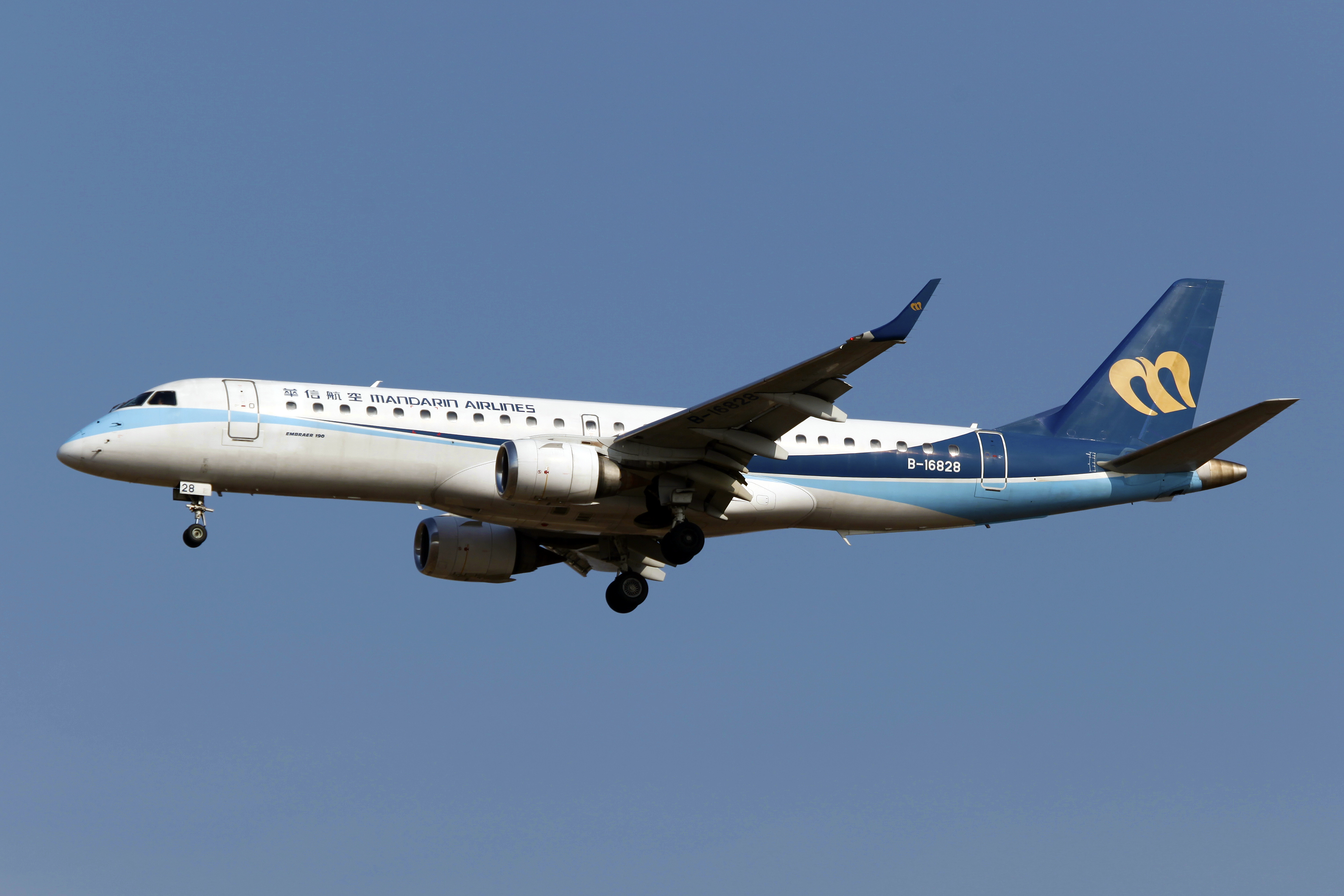 B-16828 | Mandarin Airlines | Embraer ERJ-190AR | Seoul Incheon International Airport [ICN]